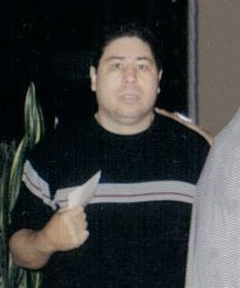 Puerto Rican boxer Wilfredo Gómez.